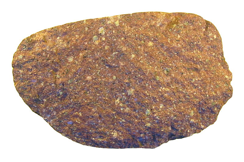 Siim Sepp, 2005 Diameter of rock sample is app. 15 cm. Rock name is särnaite (leucocratic variety of nepheline syenite) and it is from Sweden.